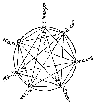 Diatonic intervals (music) with their smallest numbers depicted in a circle. The diagram of the circle of Lippius ("Synopsis of new music», f.F3r) shows all of the possible combinations of one octave diatonic intervals. Each of the stages corresponds to the lowest octave integer (reading counterclockwise): bo 180 (up), ce 160 (D), di 144 (s), ga 135 (F), etc.